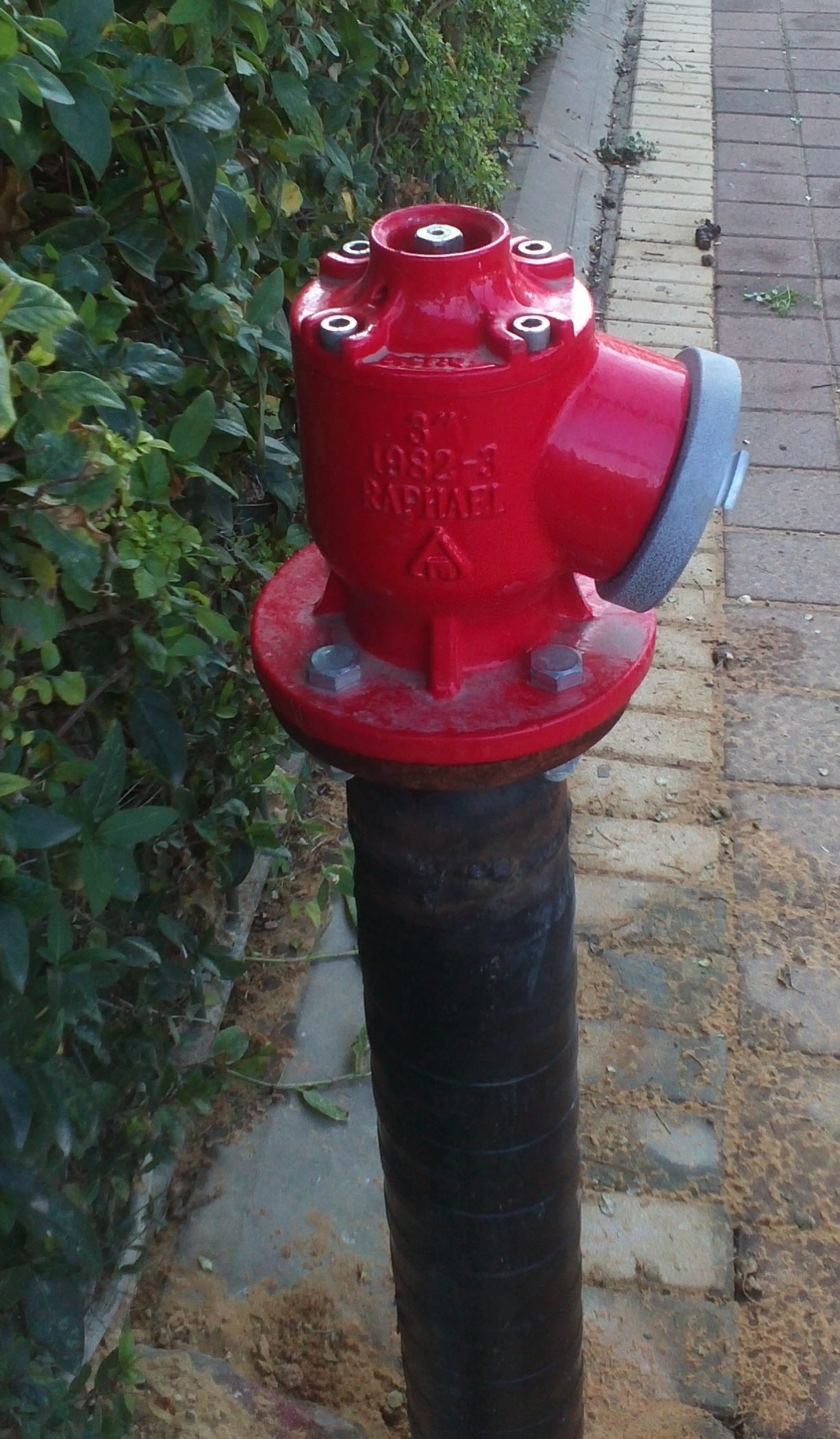 Fire hydrant by Raphael